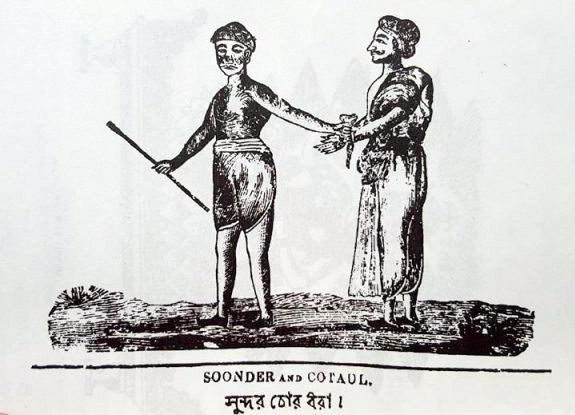 Photo of an illustrated page of Annadamangal, published in 1778